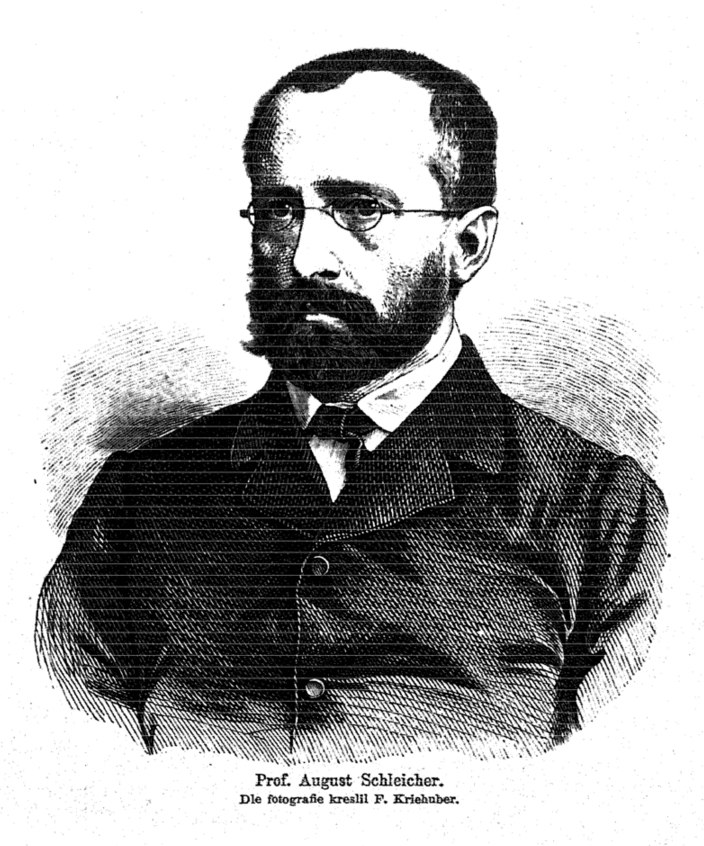 Portrait of August Schleicher (1821-1868), German linguist.